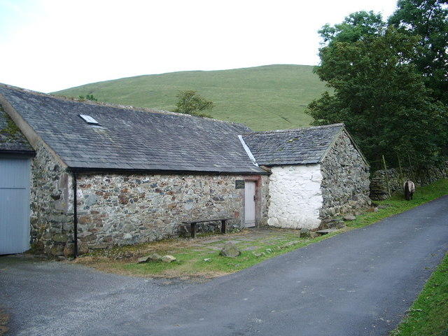 The Religious Society of Friends (Quakers) meeting house and stables, Mosedale, Mungrisdale, Cumbria